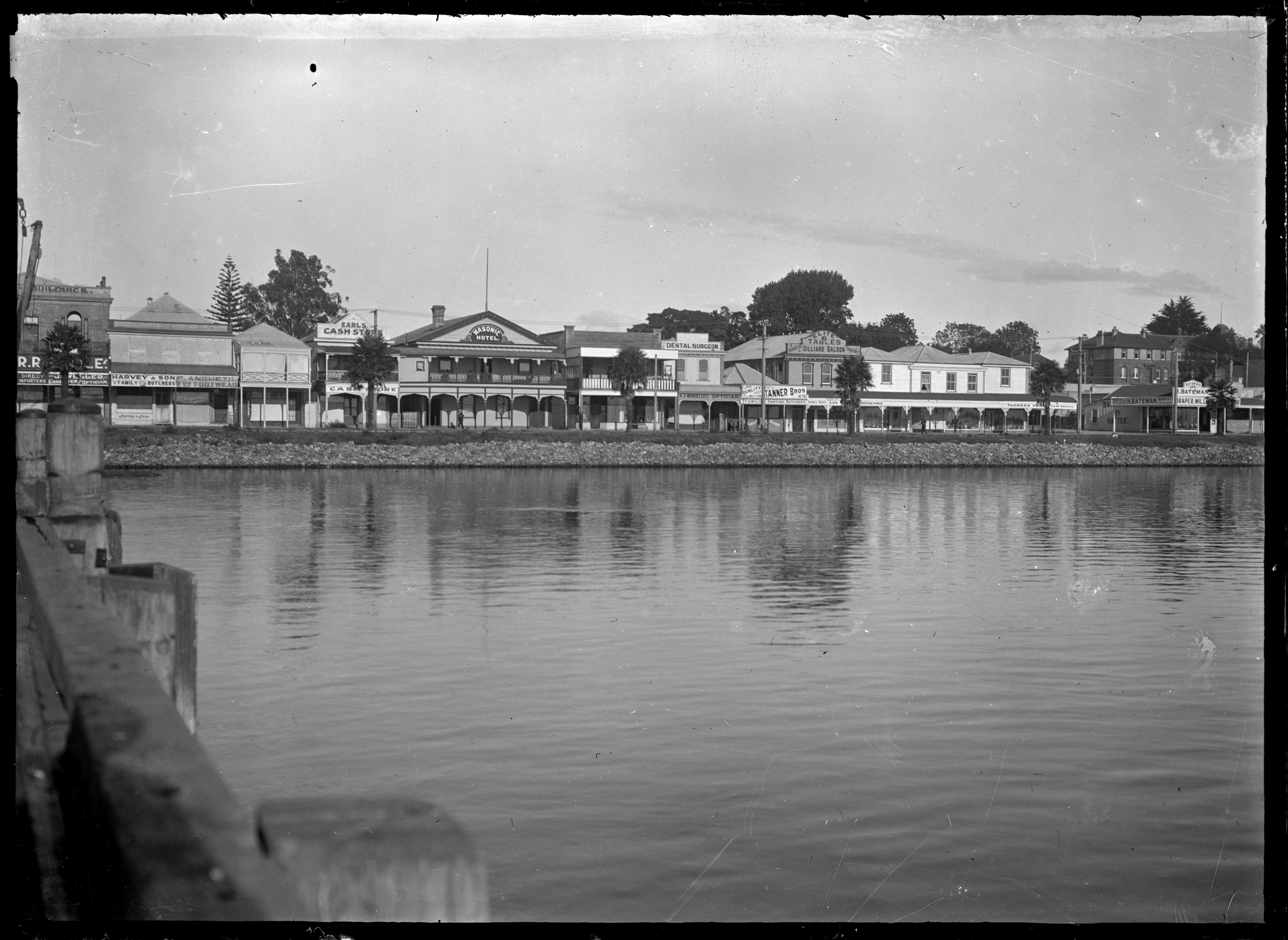 View of Tauranga waterfront with various business premises visible. These include the Masonic Hotel, A J Mirrielees (optician), Earl's Cash Store (Fred H Earl, grocer), Elite Tables Billiard Saloon, Tanner Brothers (butchers), H Bateman (Henry Bateman, draper and milliner), Harvey & Son (William Harvey, family butchers), and P Anquetil (Phillip Ernest Anquetil, bootmaker). Photograph taken by Albert Percy Godber, in 1924.